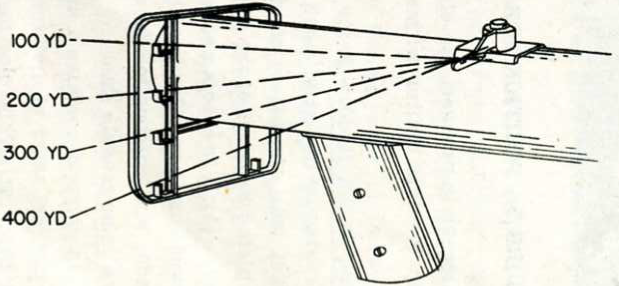 Sight of M1 Bazooka